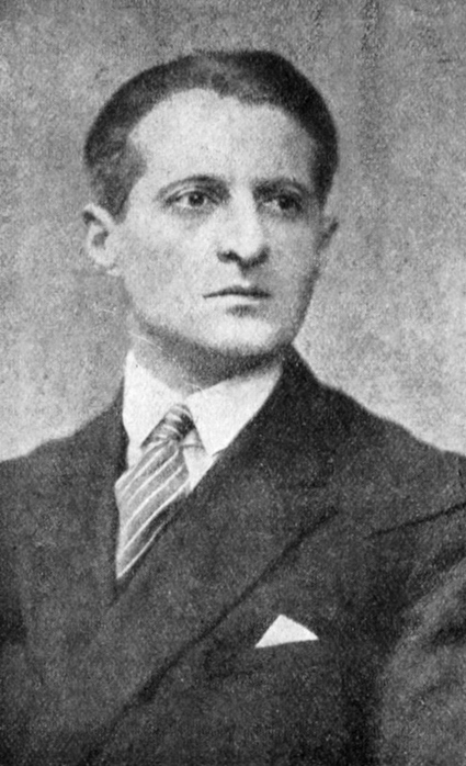 Julian Tuwim (1894–1953) was a Polish poet.